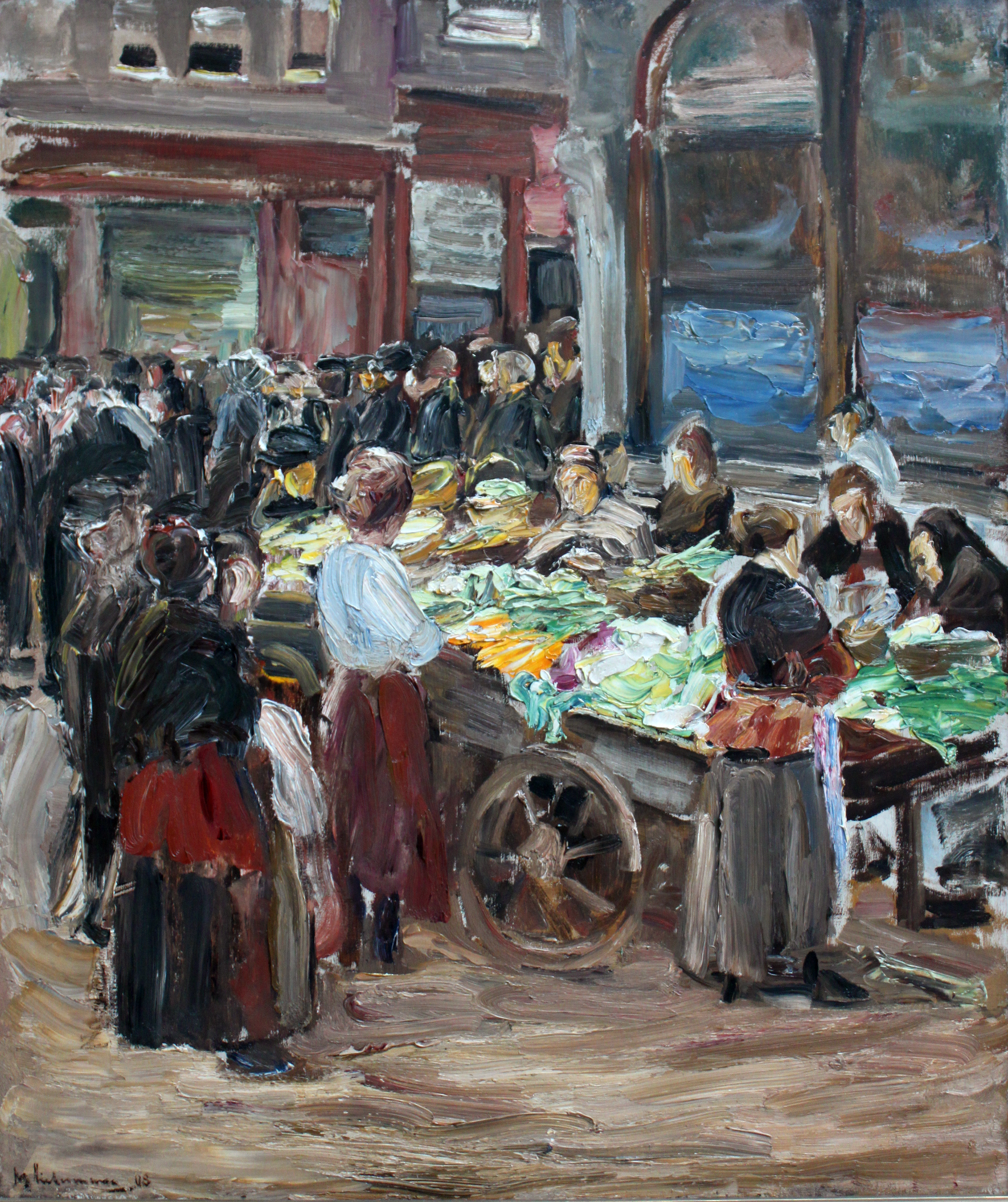 Jewish Street in Amsterdam